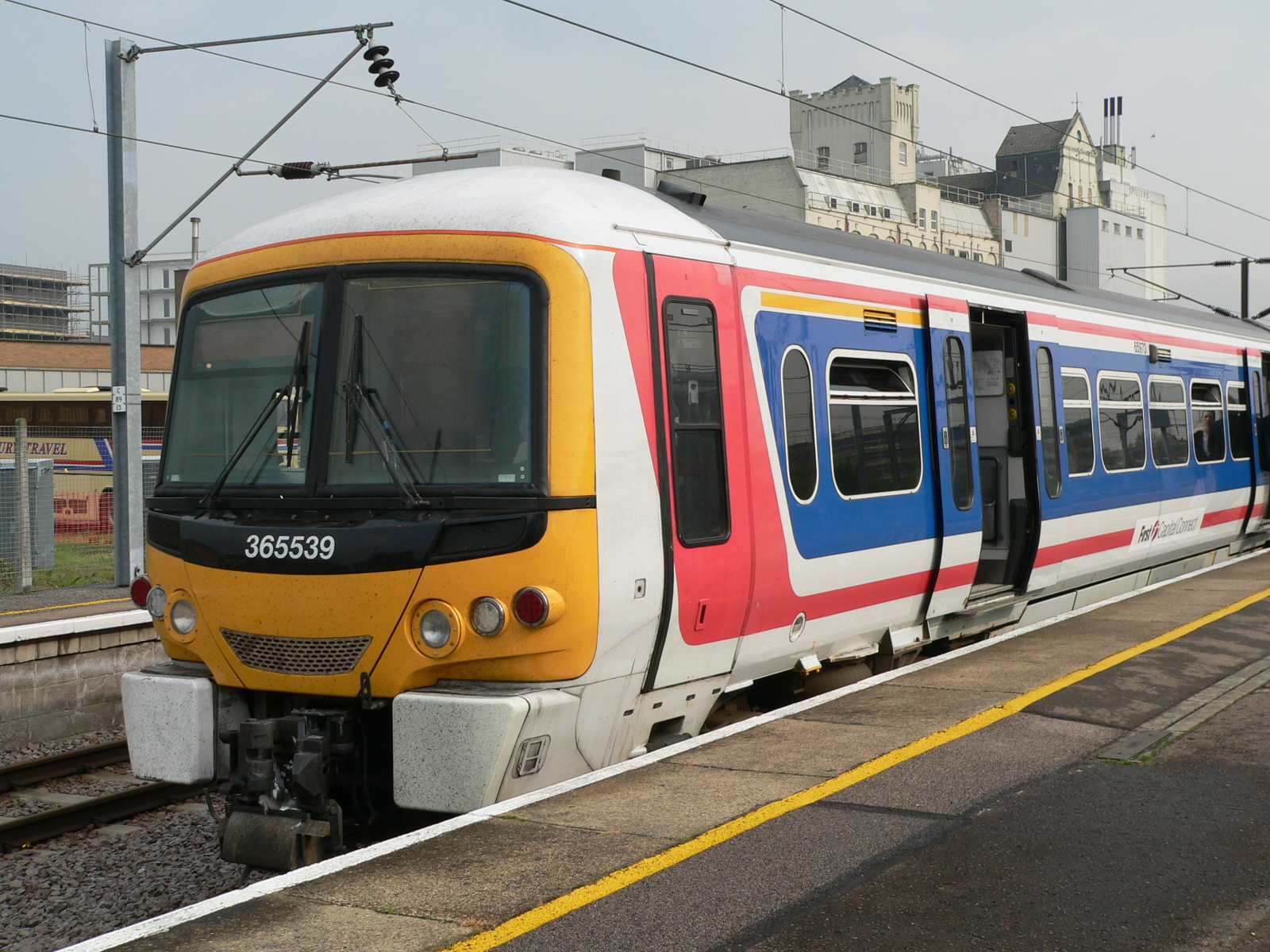 First Capital Connect Class 365 EMU 365539 still in Network SouthEast livery, alebeit with FCC and First Group branding, waits at platform 2 of Cambridge railway station with an express service to London Kings Cross.